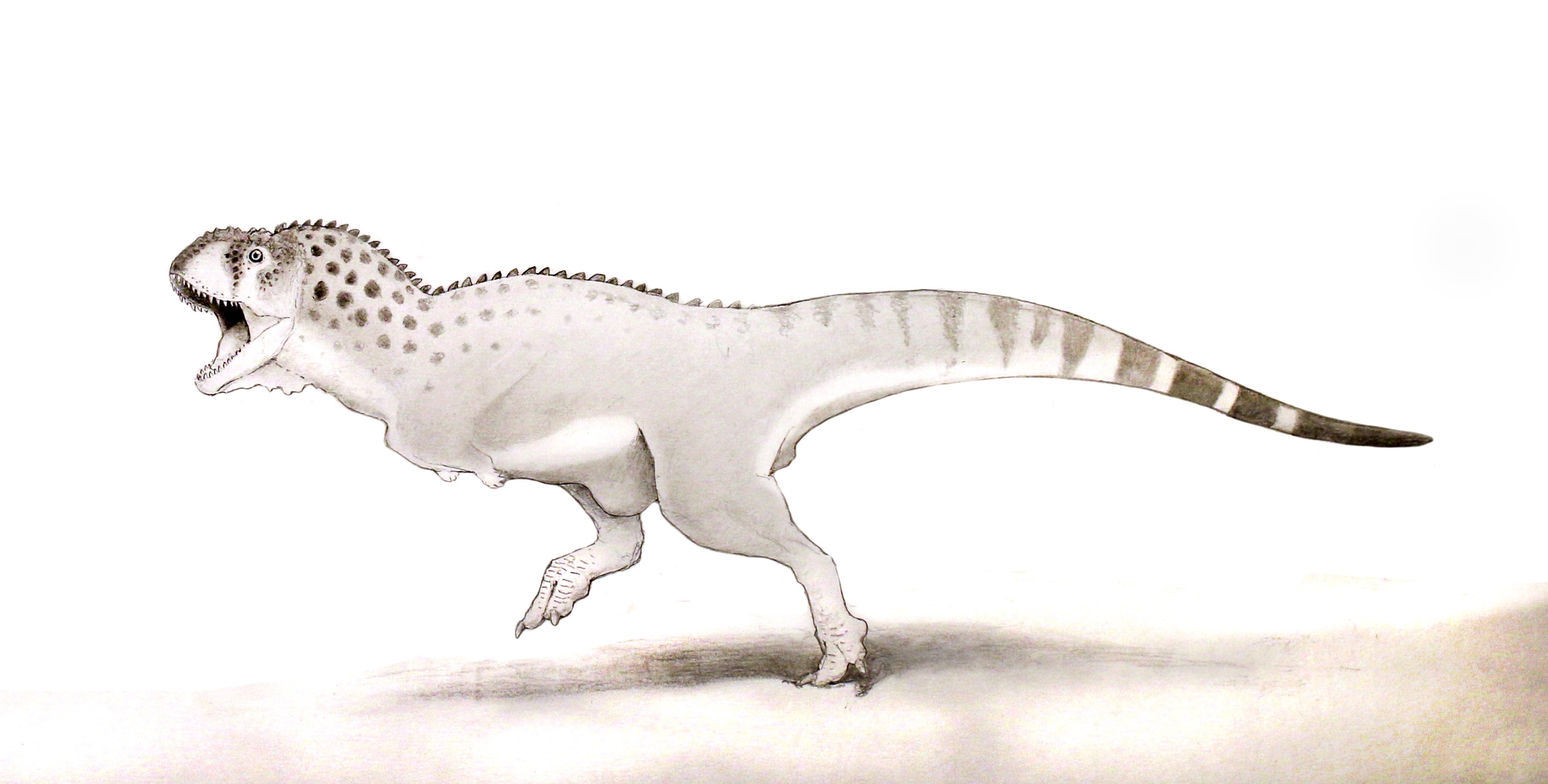 The carnivorous dinosaur Chenanisaurus barbaricus (Dinosauria: Theropoda: Abelisauridae) from the Late Cretaceous (latest Maastrichtian) Couche III beds, Sidi Chennane phosphate mine, Khouribga Province, Morocco, North Africa. Pencil and graphite on paper by Nick Longrich. Additional digital editing by Nick Longrich.